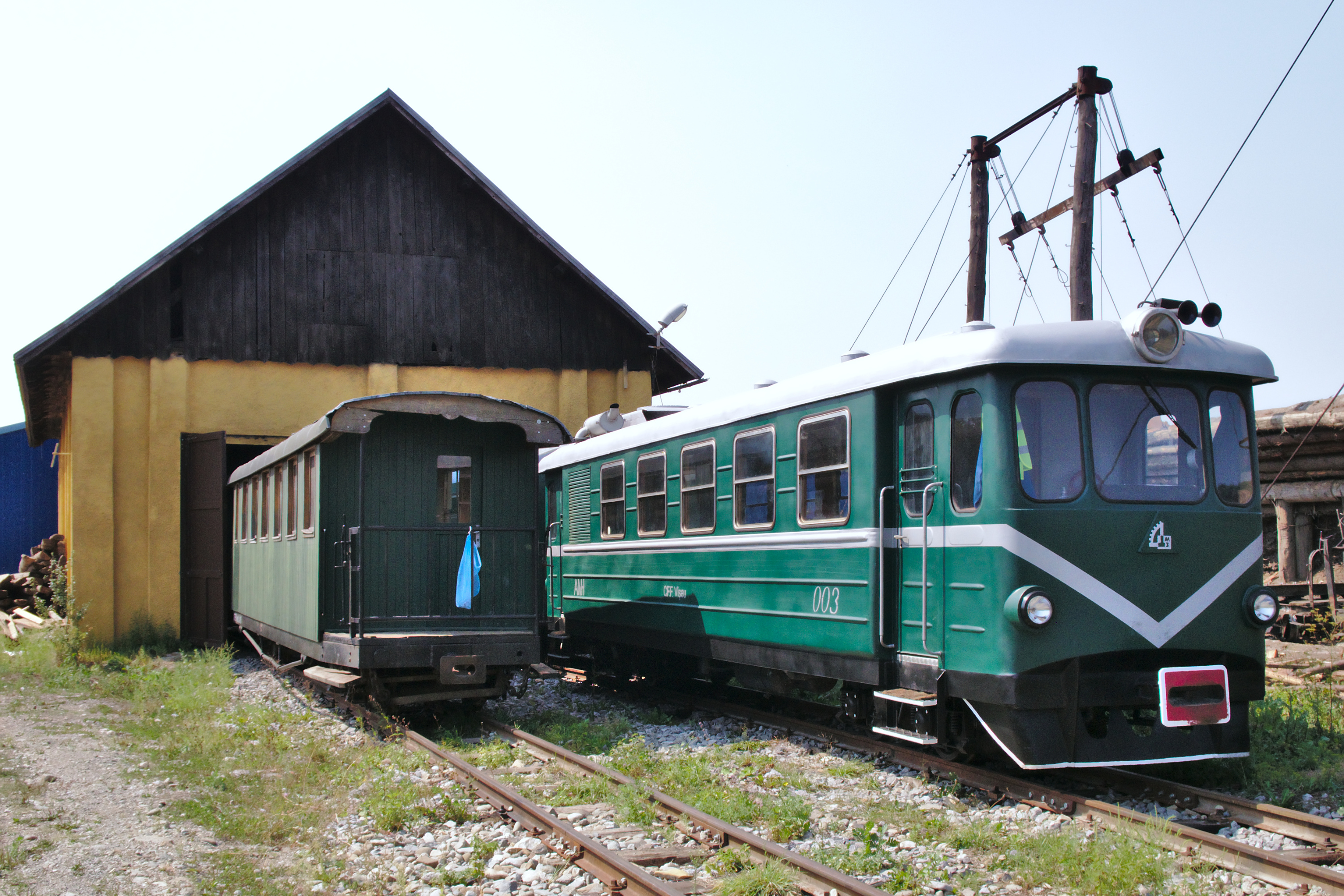 Russian built diesel railcar type AM-1 and an old 8wheel carriage standing in front of the old engine shed in Vișeu de Sus.